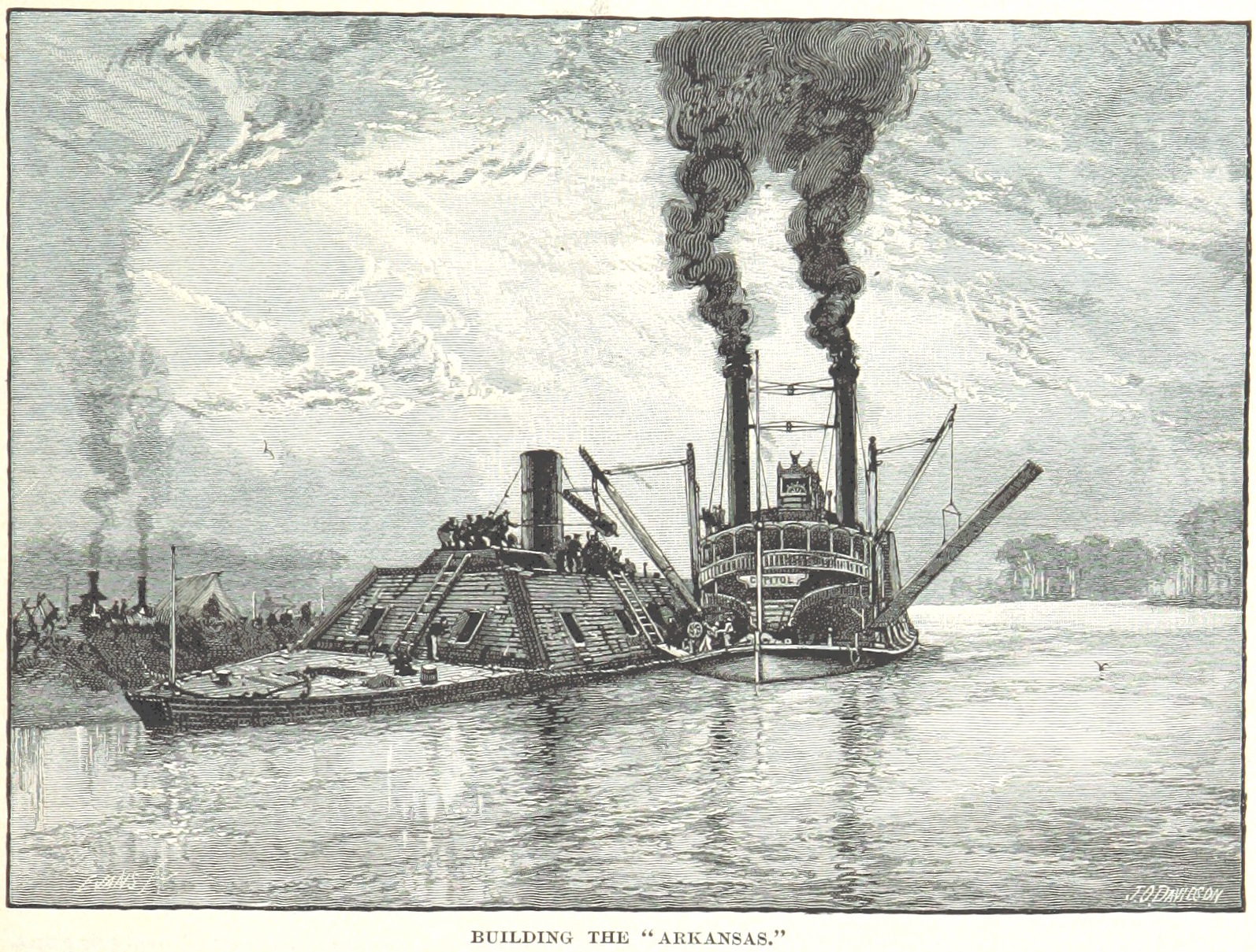 The Confederate gunboat CSS Arkansas under construction.